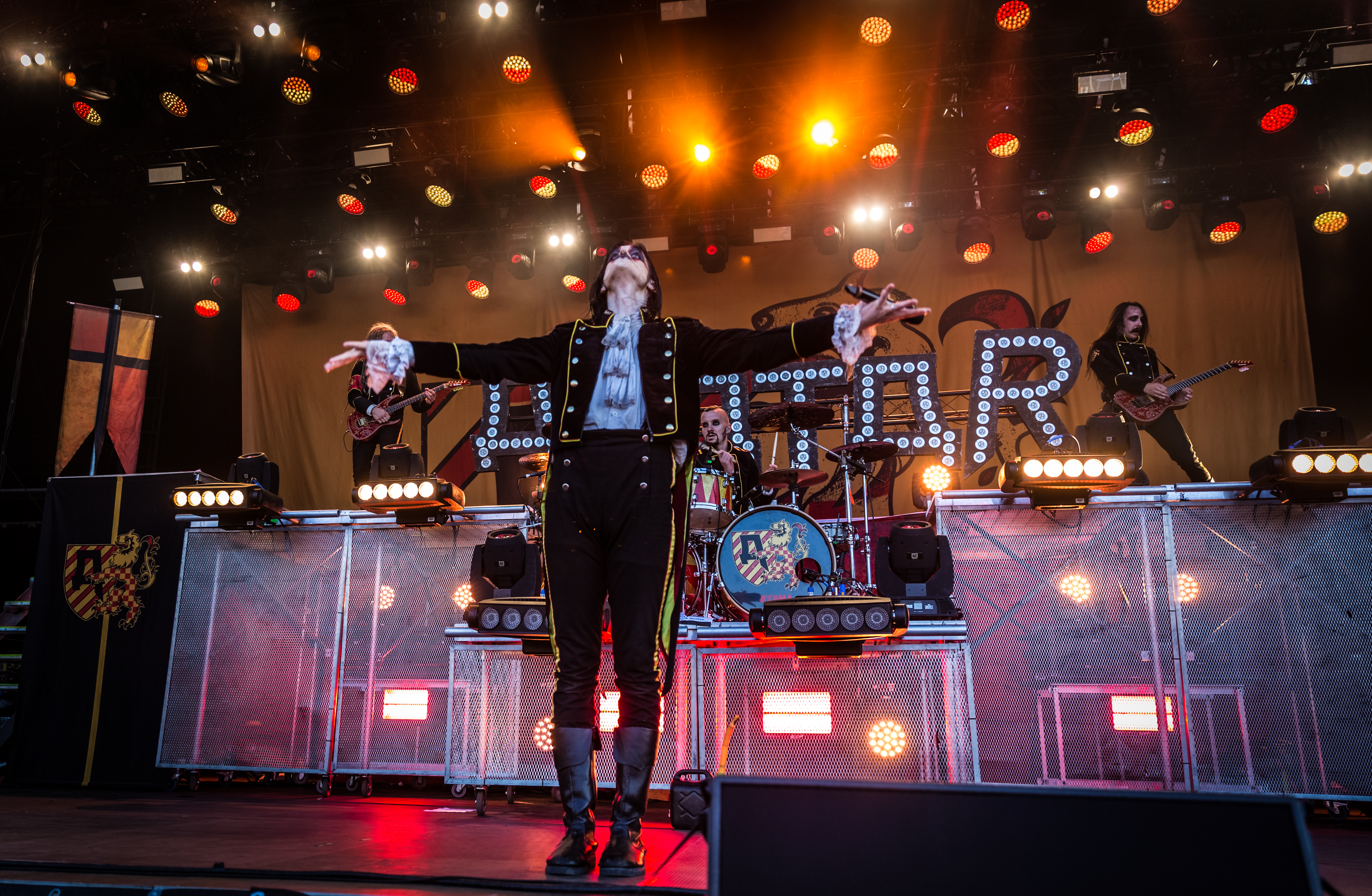 Avatar - Rock am Ring 2018